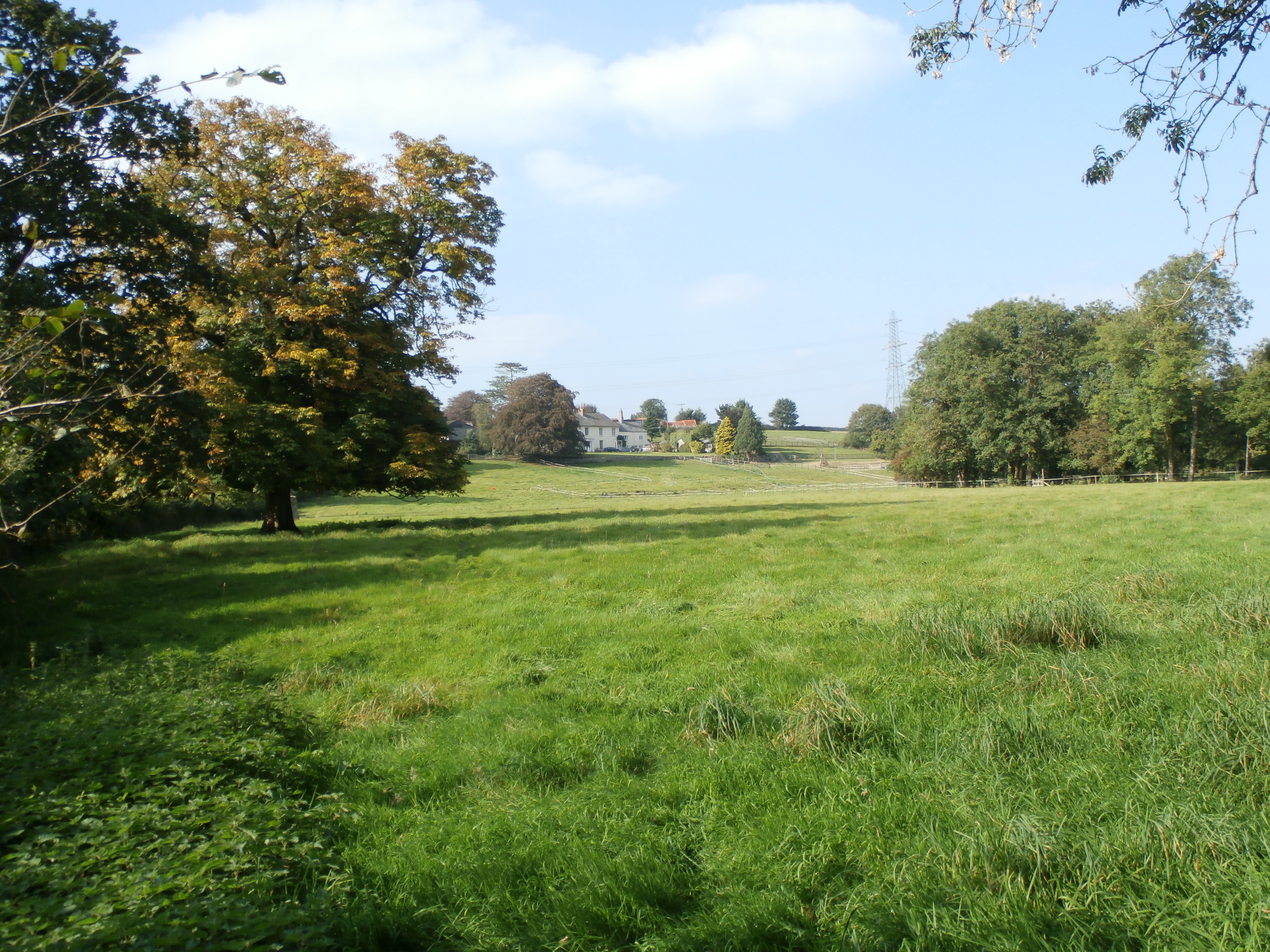 Grilstone in the parish of Bishop's Nympton, Devon, viewed from the valley bottom. Historic home of Sir Lewis Pollard (d.1526) a Justice of the Common Pleas and a Member of Parliament for Totnes in 1491. The present house is Georgian, but Hoskins (1959) states: "There are some remains of the old house at Grilstone" (Hoskins, W.G., A New Survey of England: Devon, London, 1959 (first published 1954), p.338 )